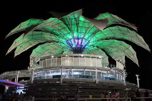 Ingles